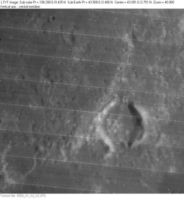 LO-IV-066H Secchi is the crater to the lower right of center. This view includes Montes Secchi which run diagonally from lower left to upper right.